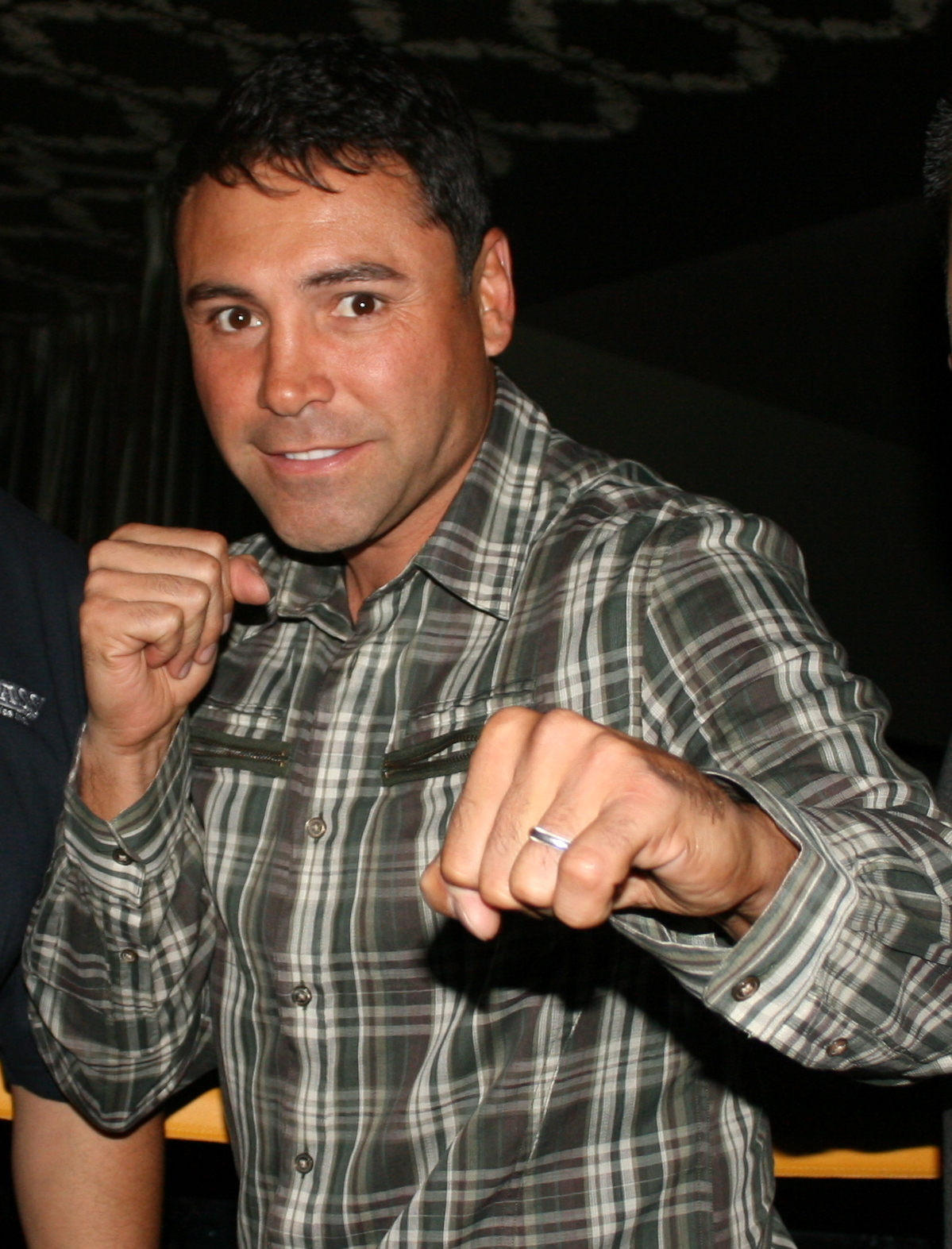 Oscar De La Hoya at Fight Night Club event at the Club Nokia in Los Angeles, California, United States.